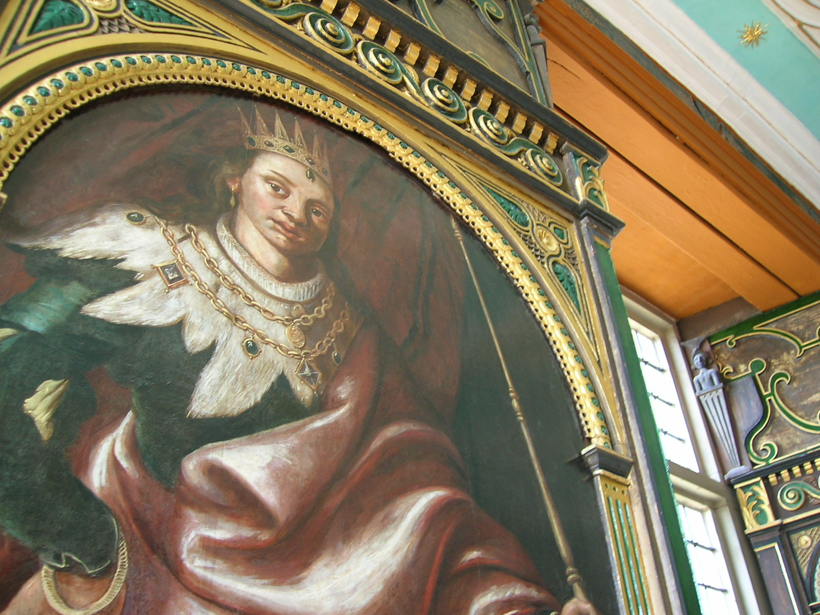 Bolsover castle, painting of King David